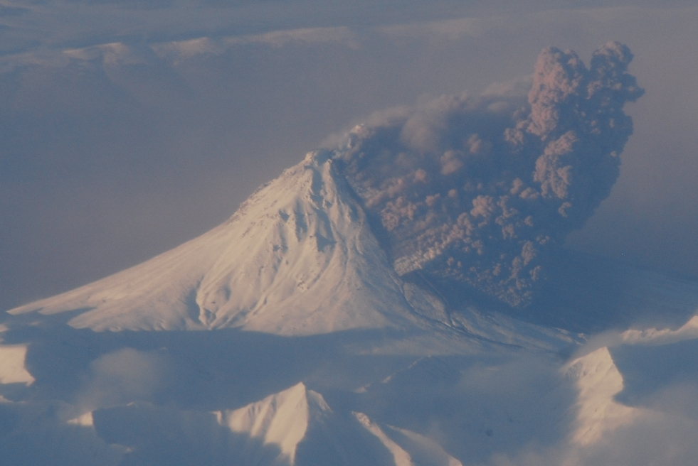 This is a cropped reduced version of the second aerial telephoto picture of the eruption of Kizimen Volcano in Kamchatka taken by Don Nelson Page (Professor of Physics, University of Alberta, Edmonton, Alberta, Canada), 981x656 pixels, with a Nikon D80 digital camera and an AF-S Nikkor 18-200 mm zoom lens (probably set at 200 mm) on 2010 December 10 at 03:14 UTC (2:14 p.m. local Kamchatka time) from Seat 36K of Air Canada Flight 063 from Vancouver, Canada, to Incheon-Seoul, Korea. According to emails from Russian volcanologists Olga Girina (Institute of Volcanology and Seismology FED RAS, Head of KVERT blv. Piip, 9, Petropavlovsk-Kamchatsky, Russia 683006) and Evgeny Gordeev (Director of the Institute of Volcanology and Seismology RAS) and from the Alaskan Volcano Observatory volcanologist Christina Neal (USGS - 4200 University Drive, Anchorage, Alaska 99508, USA), this and 18 other photos by Don Page on this occasion appear to be the only ones of Kizimen Volcano at this initial stage of its December 2010 eruption. Kizimen Volcano is said to have the potential of a Mount-Saint-Helens-type eruption.